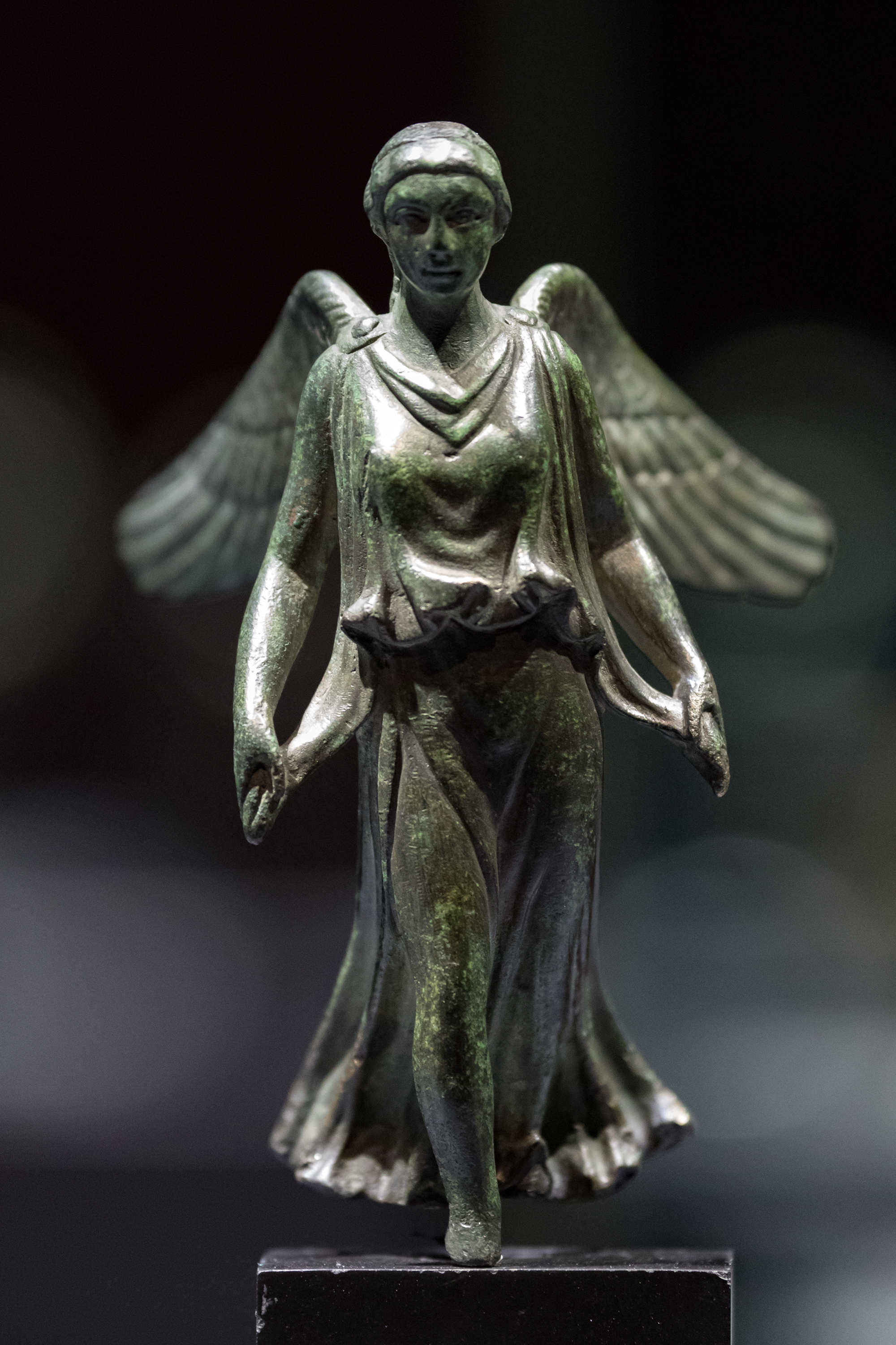 Roman figurine of goddess Victoria at Kunsthistorisches Museum in Vienna, Austria.